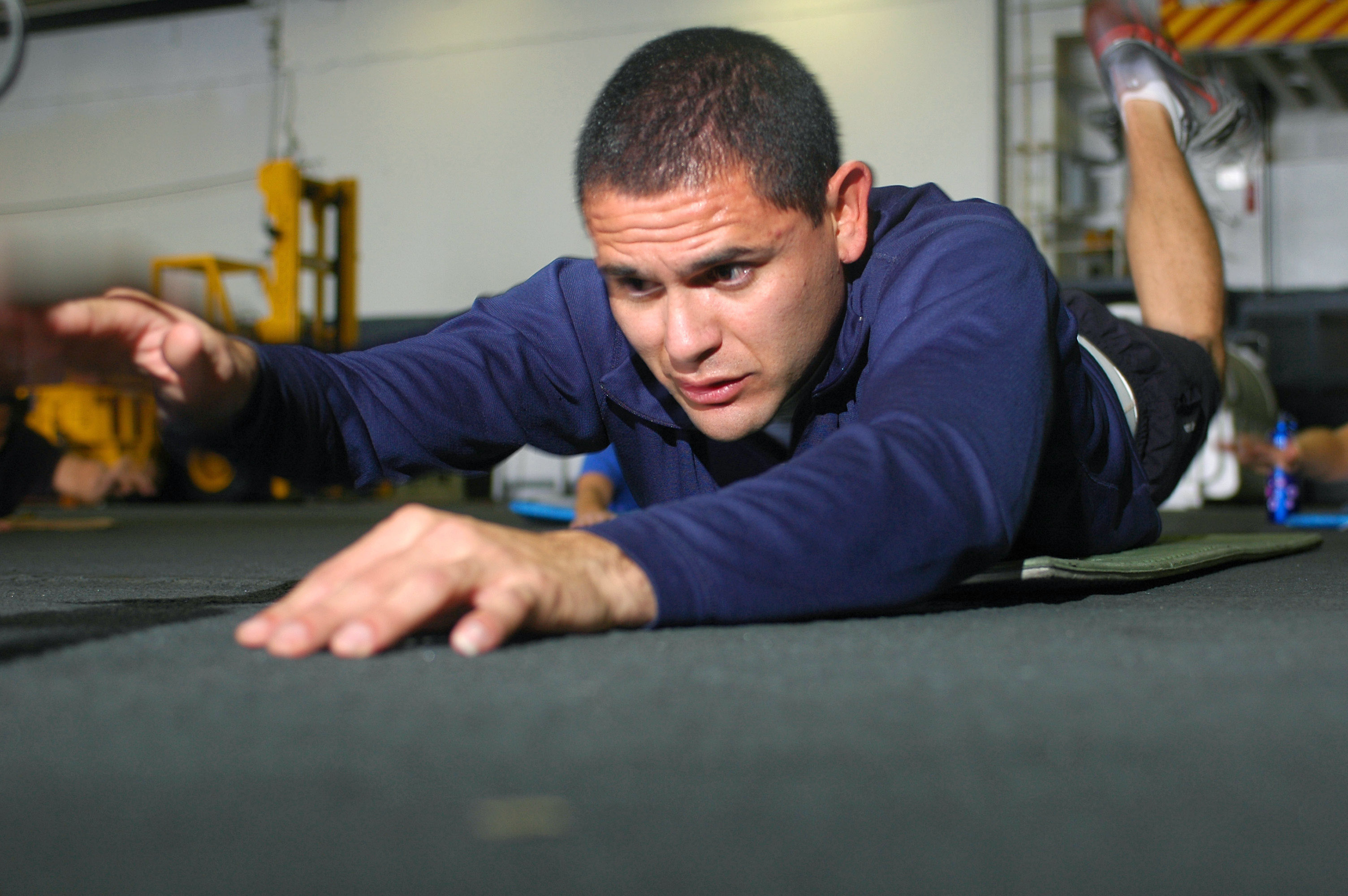 Pacific Ocean (Oct. 30, 2006) - Operations Specialist 1st Class Rodolfo Serna prepares for the upcoming Physical Readiness Test (PRT) while exercising in the hangar bay aboard the nuclear-powered aircraft carrier USS Nimitz (CVN 68). Nimitz is currently underway conducting Tailored Ships Training Availability (TSTA) off the coast of Southern California. U.S. Navy photo by Mass Communication Specialist Seaman Michael N. Tialemasunu (RELEASED)